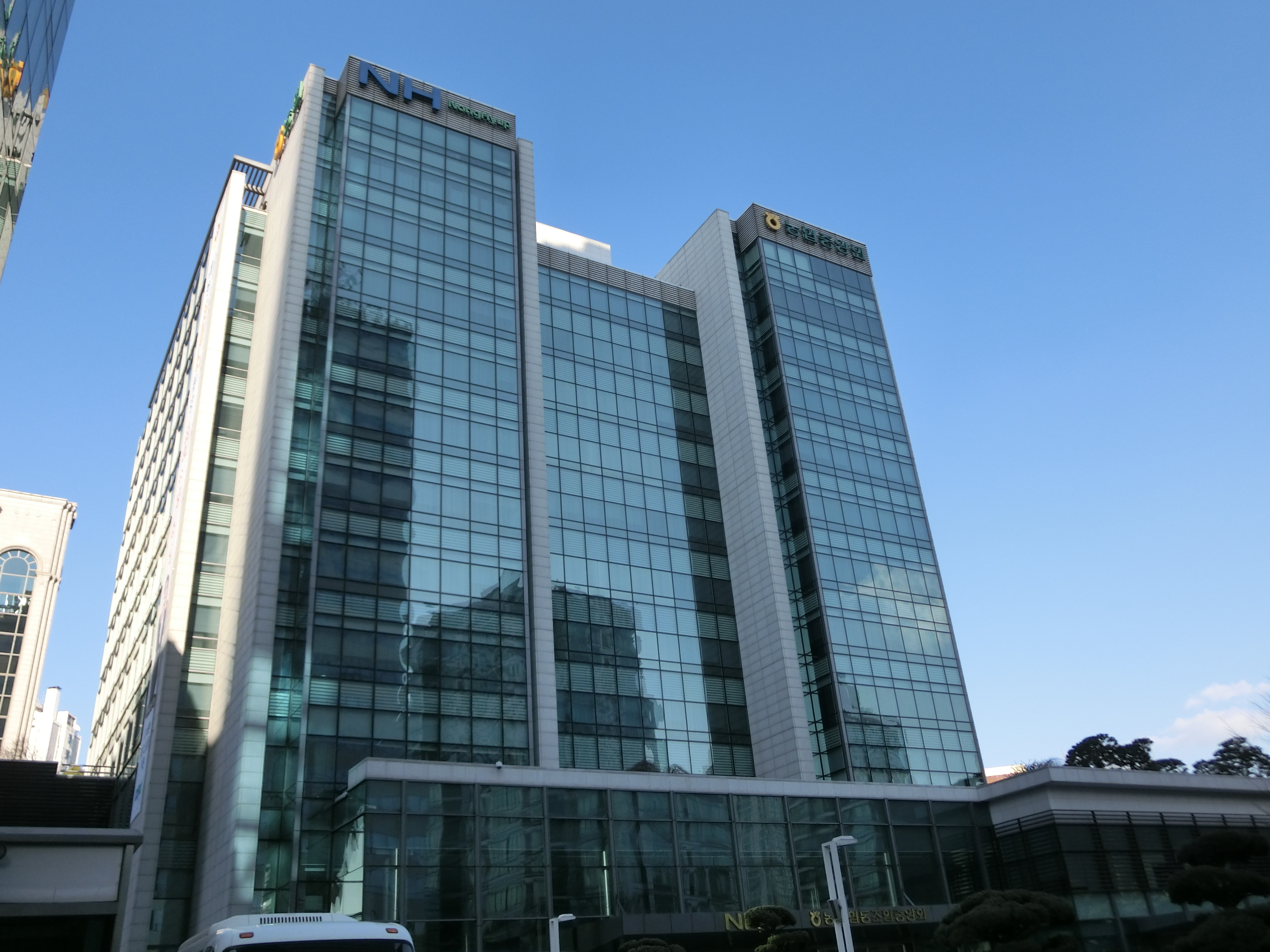 Nong Hyup Headquarters